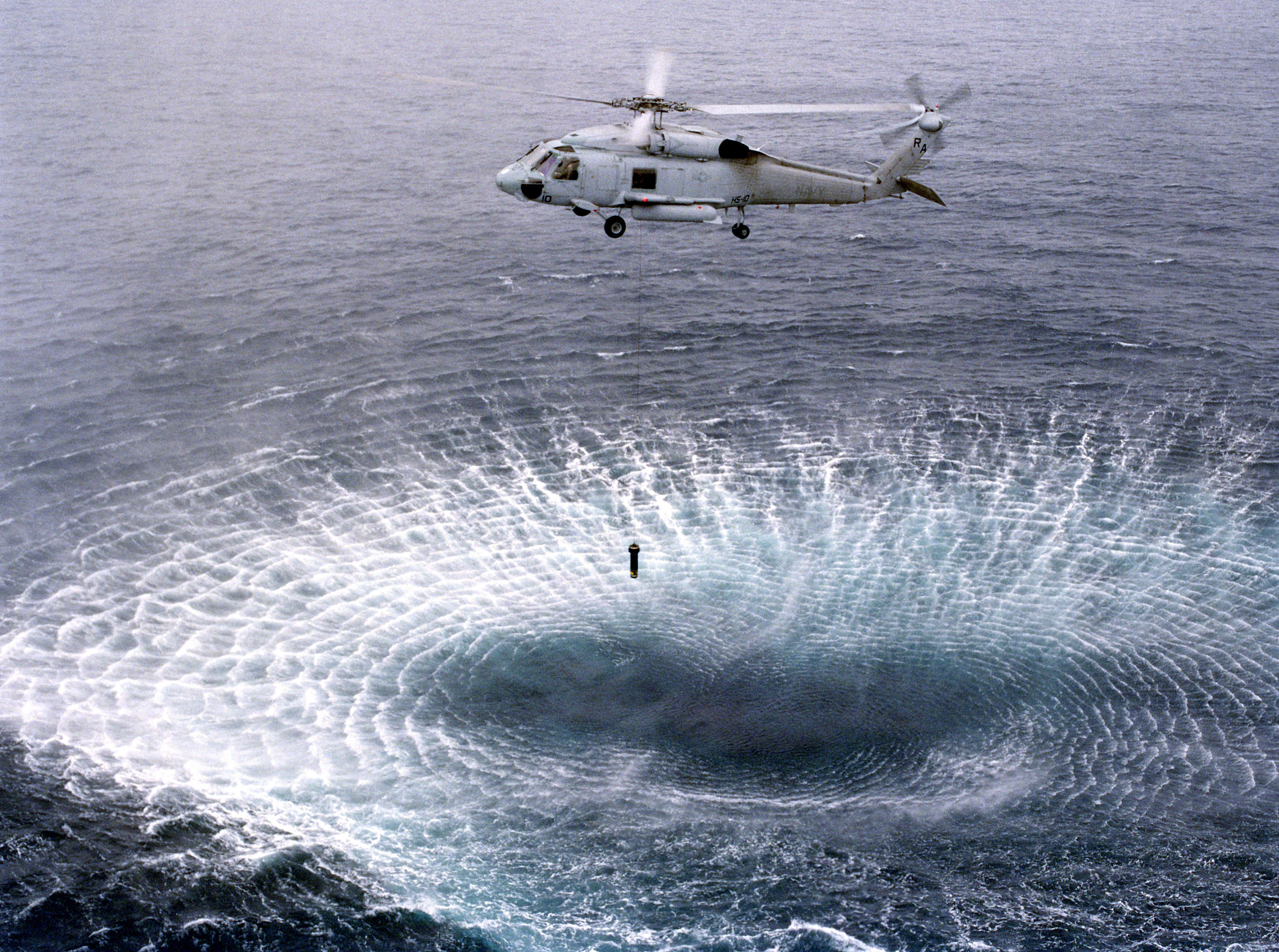 Aerial view of a SH-60F SEAHAWK Helicopter Antisubmarine Squadron (HS-10), Taskmasters, Naval Air Station North Island (NASNI), San Diego, California, lowers a dipping SONAR into the Pacific Ocean.